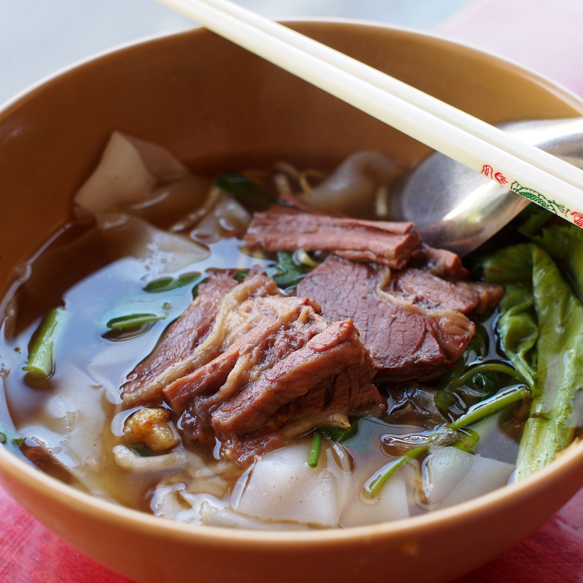 Kuaitiao nuea pueay (Thai script: ก๋วยเตี๋ยวเนื้อเปื่อย) is a noodle soup with tender braised beef. It is the Thai version of the Chinese "braised beef noodles" (Chinese script: (紅燒牛肉麵). This particular version is with sen yai noodles, also known as shahe fen in Chinese. Condiments for this dish are roasted dried chilli flakes, and a dip made with mashed green bird's eye chillies, ginger, garlic, sugar and vinegar.